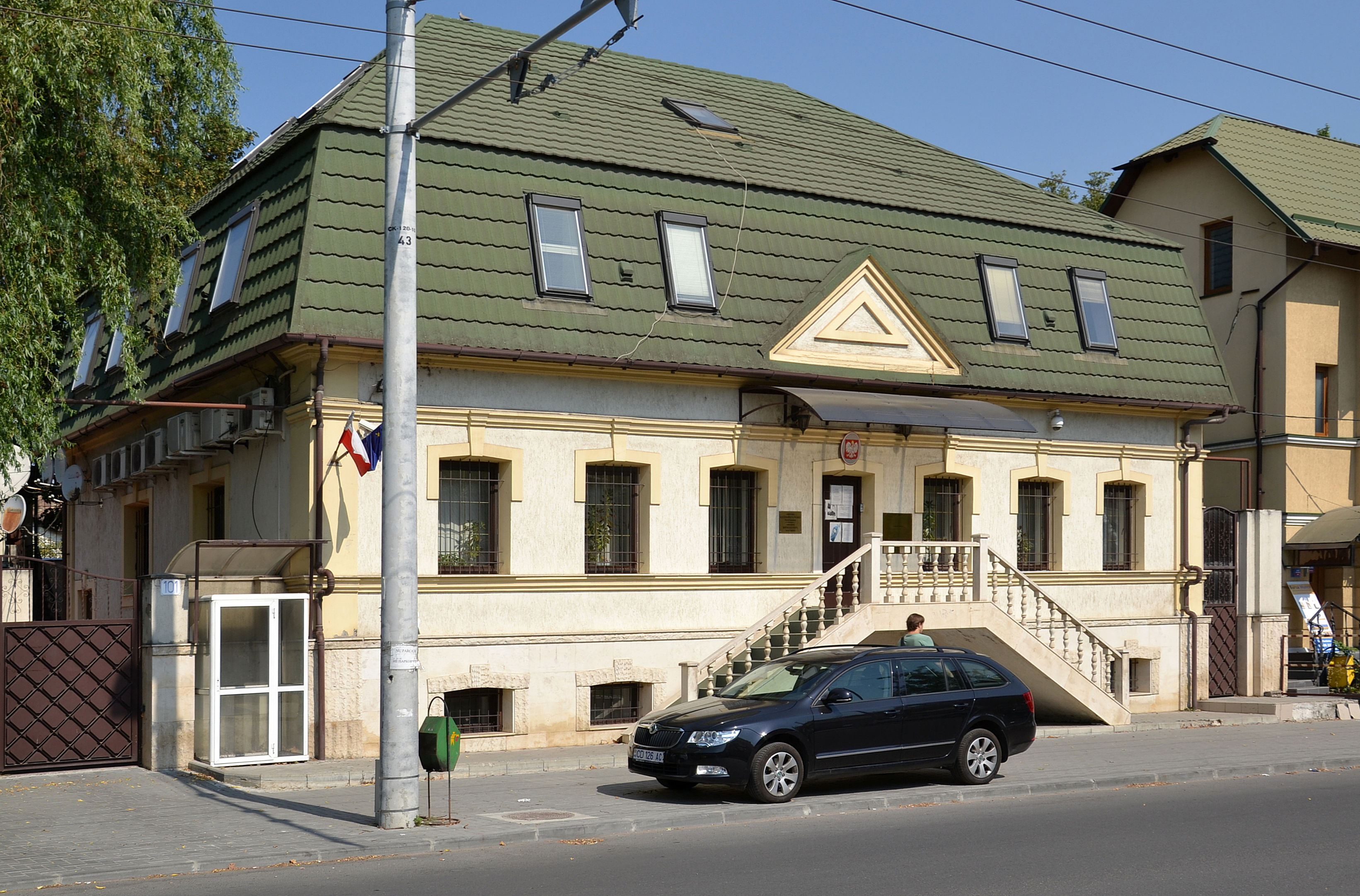 Polish Embassy in Chişinău, Moldova